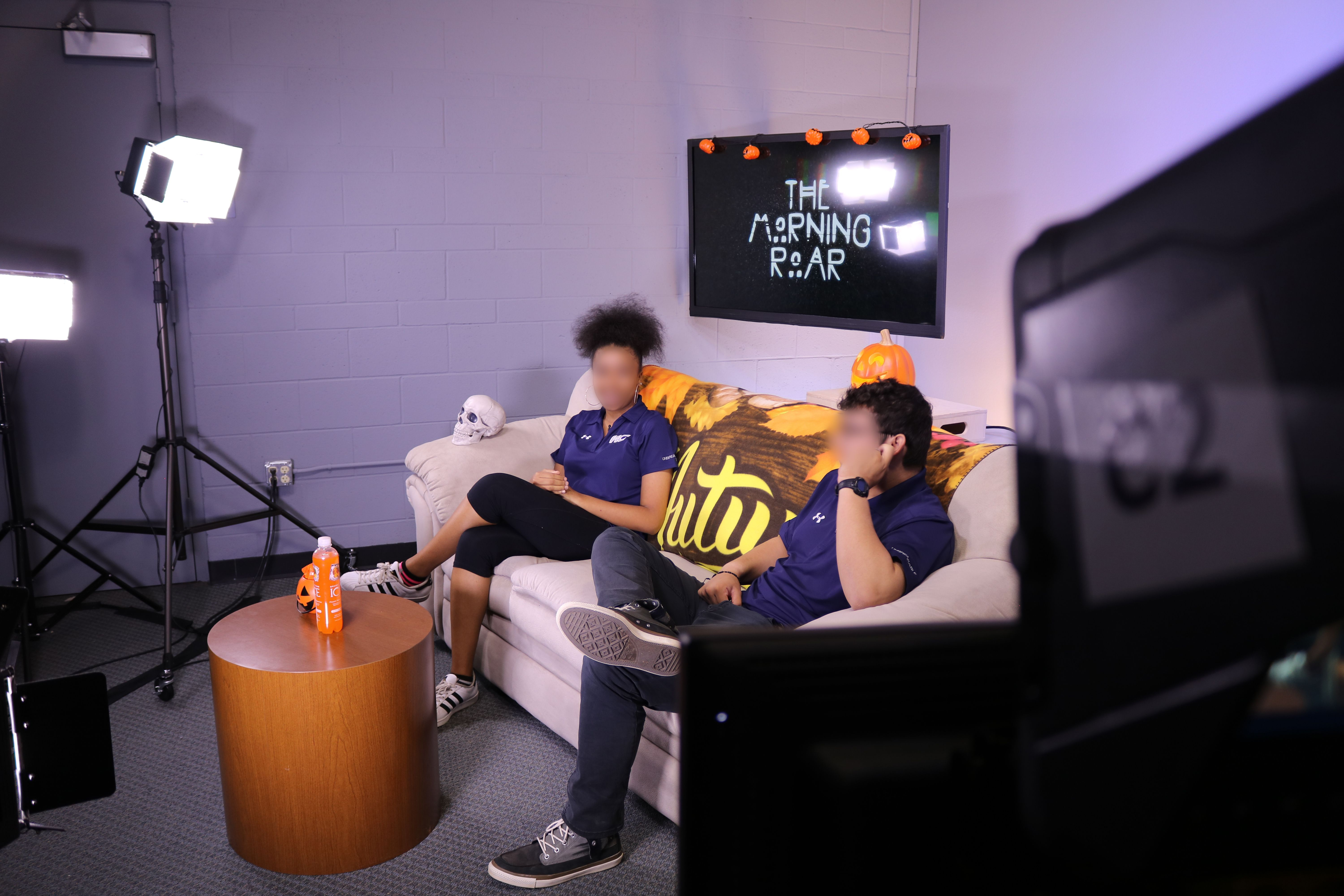 Behind the scenes of WCHS The Morning Roar.